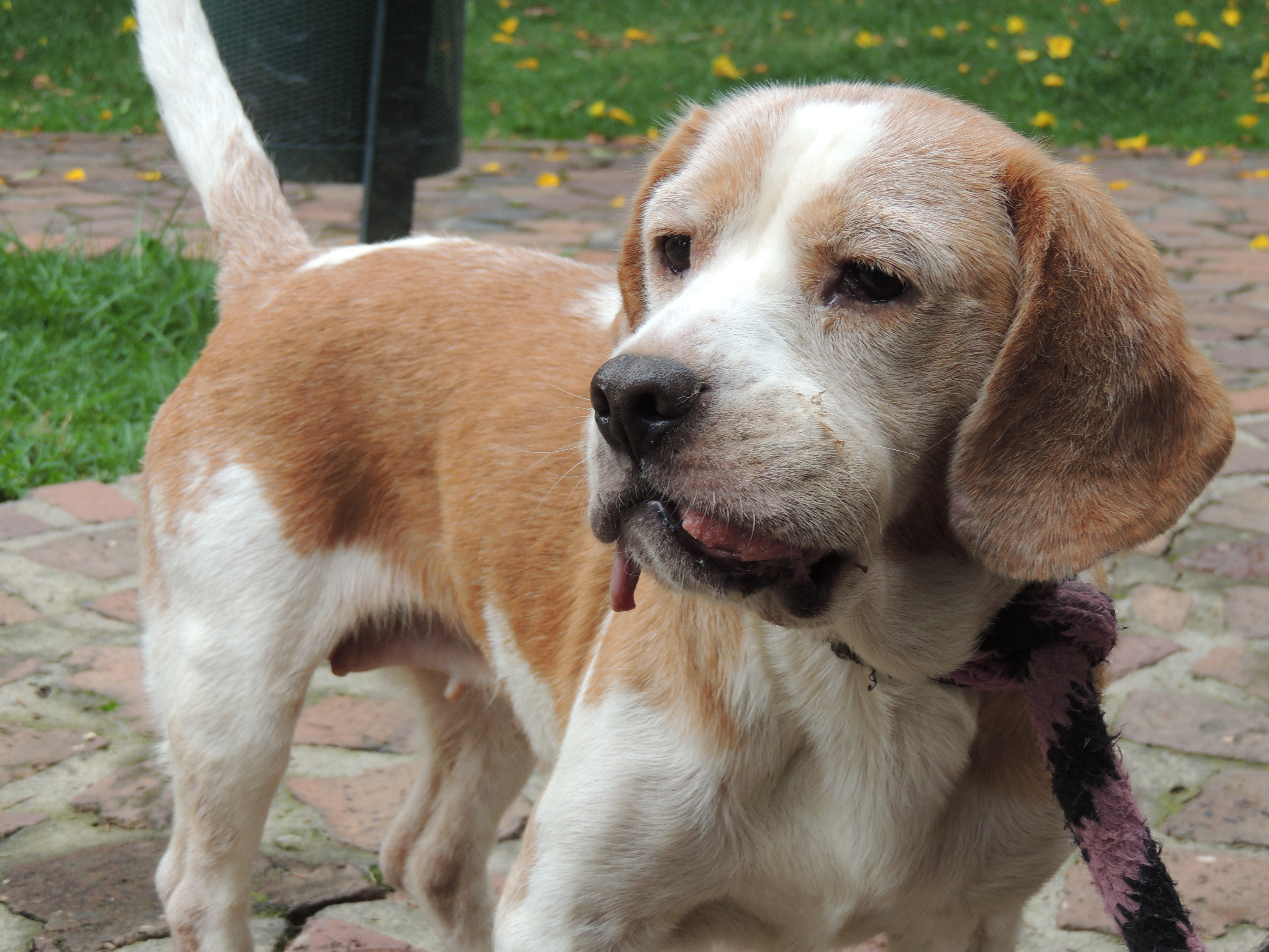 10-year-old bicolor female beagle with jaw cancer. This dog has been living with cancer almost 5 years. Pet.